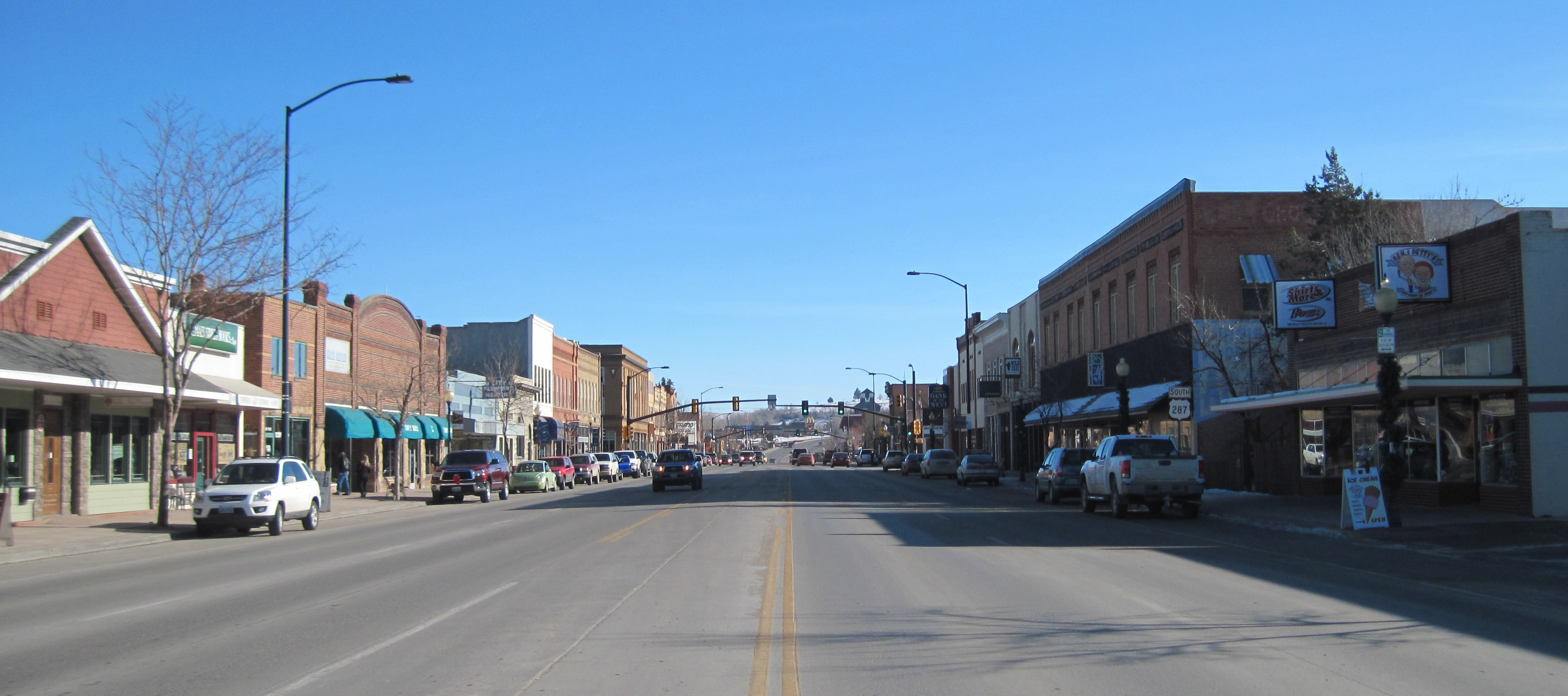 Lander Downtown Historic District, Lander, Wyoming. Looking east on Main Street from Fourth Street.